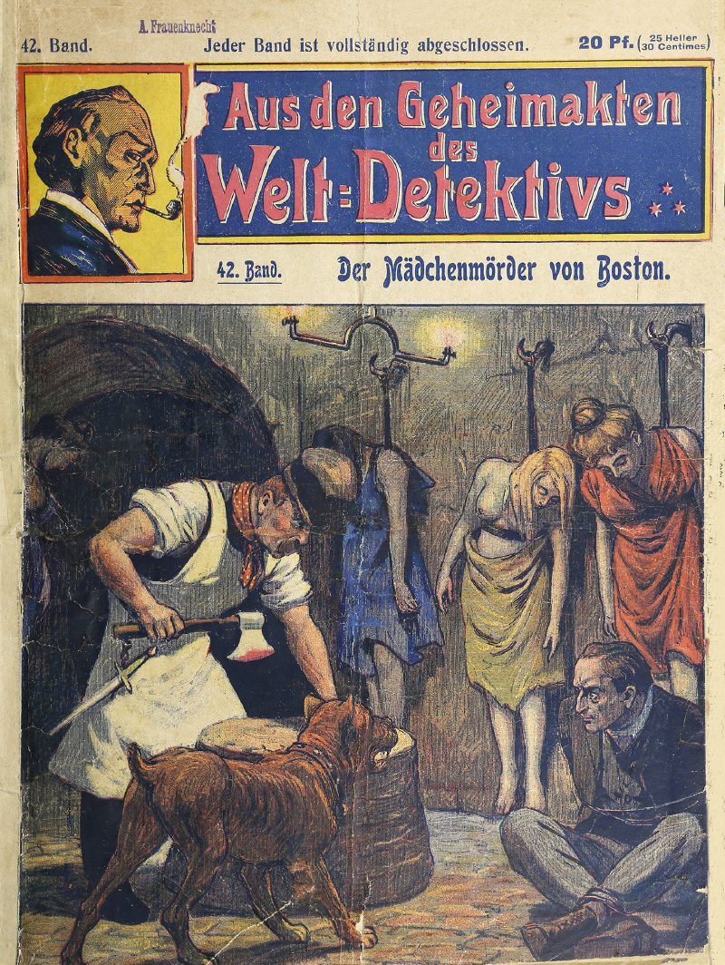 Cover of original issue 42 of Series: Detektiv Sherlock Holmes und seine weltberühmten Abenteuer [”Detective Sherlock Holmes, His World-Famous Adventures”]. Published by Verlagshaus für Volksliteratur und Kunst in Berlin 1907-1911. Edited by F. Butsch. Cover illustrations by Alfred Roloff. 32 pages. 11 booklets (1-11). Series renamed for legal reasons to: Aus den Geheimakten des Welt-Detektivs. Kriminal-Wochenschrift [”From the Secret Files of World-Detective. The Criminal Weekly”]. Published by Verlagshaus für Volksliteratur und Kunst in Berlin 1907-1911 (17.1.1907-8.6.1911). Edited by F. Butsch. Cover illustrations by Alfred Roloff. 32 p. 219 issues (12-230). Series was appearently continually reprinted to provide news-agents complete stock of back-issues.